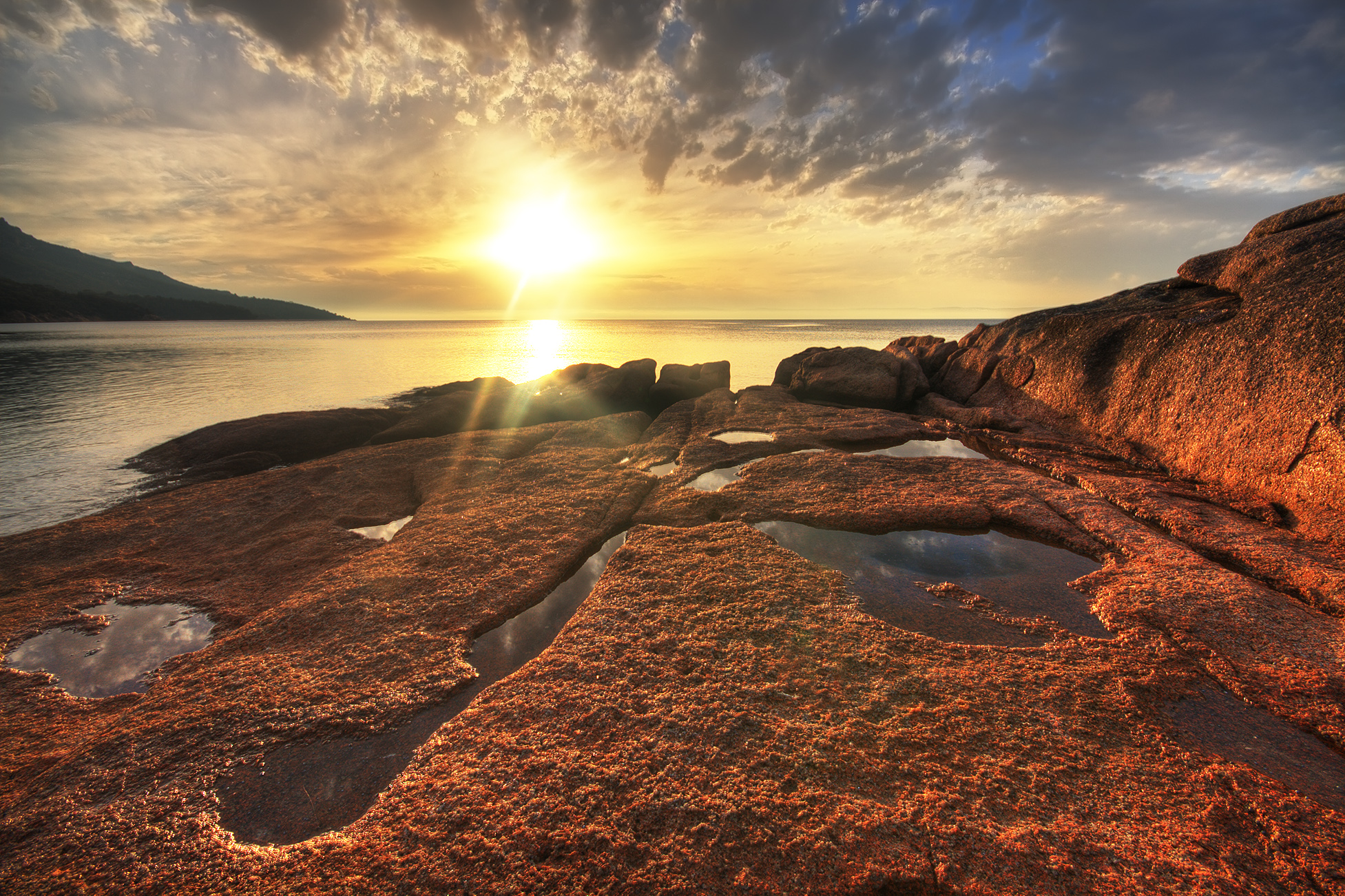 Sunset at Honeymoon Bay, Freycinet Peninsula, Tasmania, Australia.